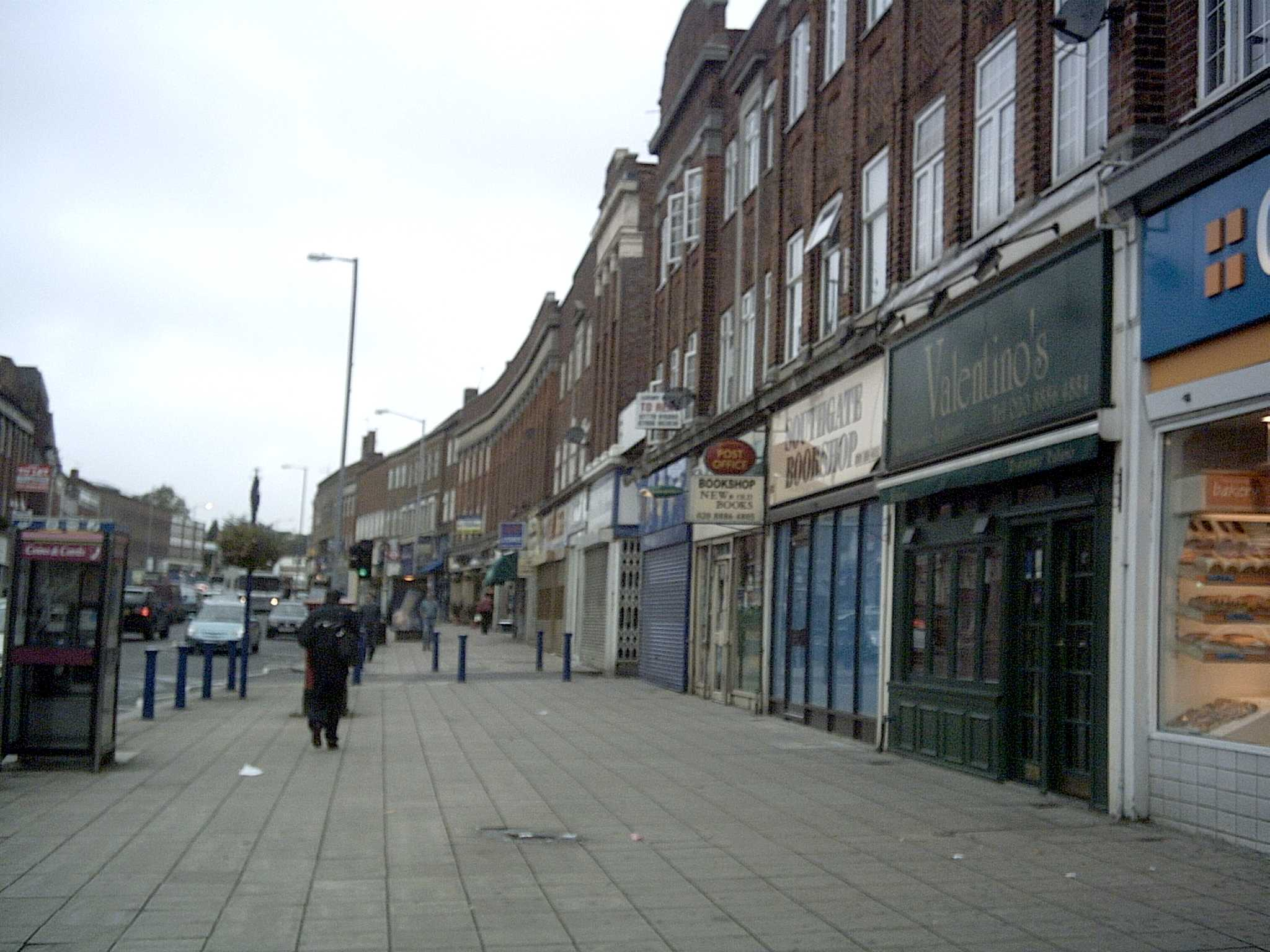 Chase Side, the main shopping street in Southgate. Taken about 9.15am, Thursday 13th October 2005. Londoneye 12:15, 16 October 2005 (UTC)